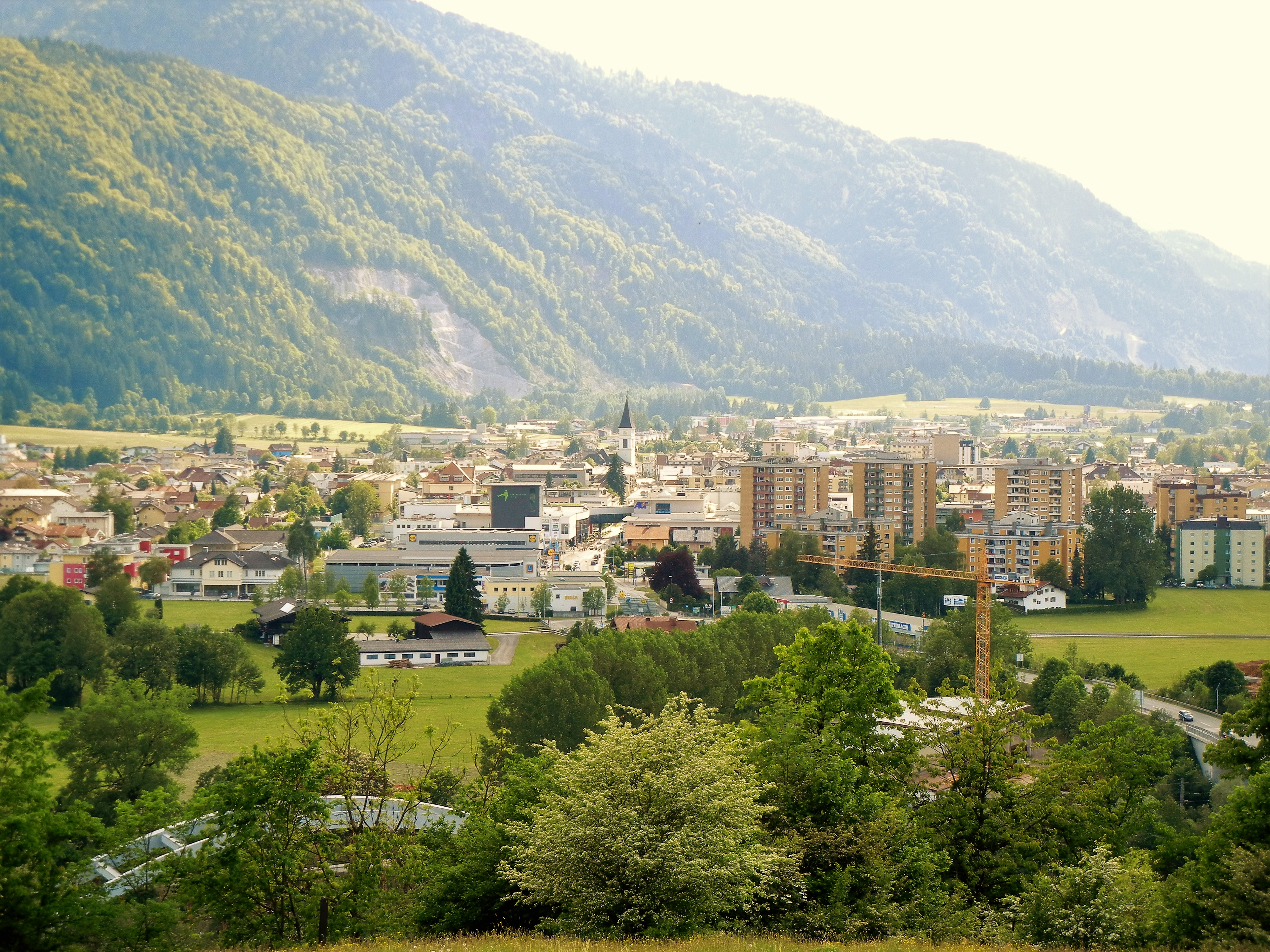 View from the Grattenbergl to the city of Wörgl (Tyrol, Austria).